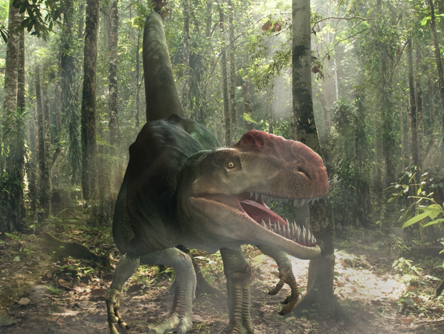 3D digital reconstruction of Monolophosaurus. In July 2012, this reconstruction was published in second edition of the book Prehistoric Life: The Definitive Visual History of Life on Earth".